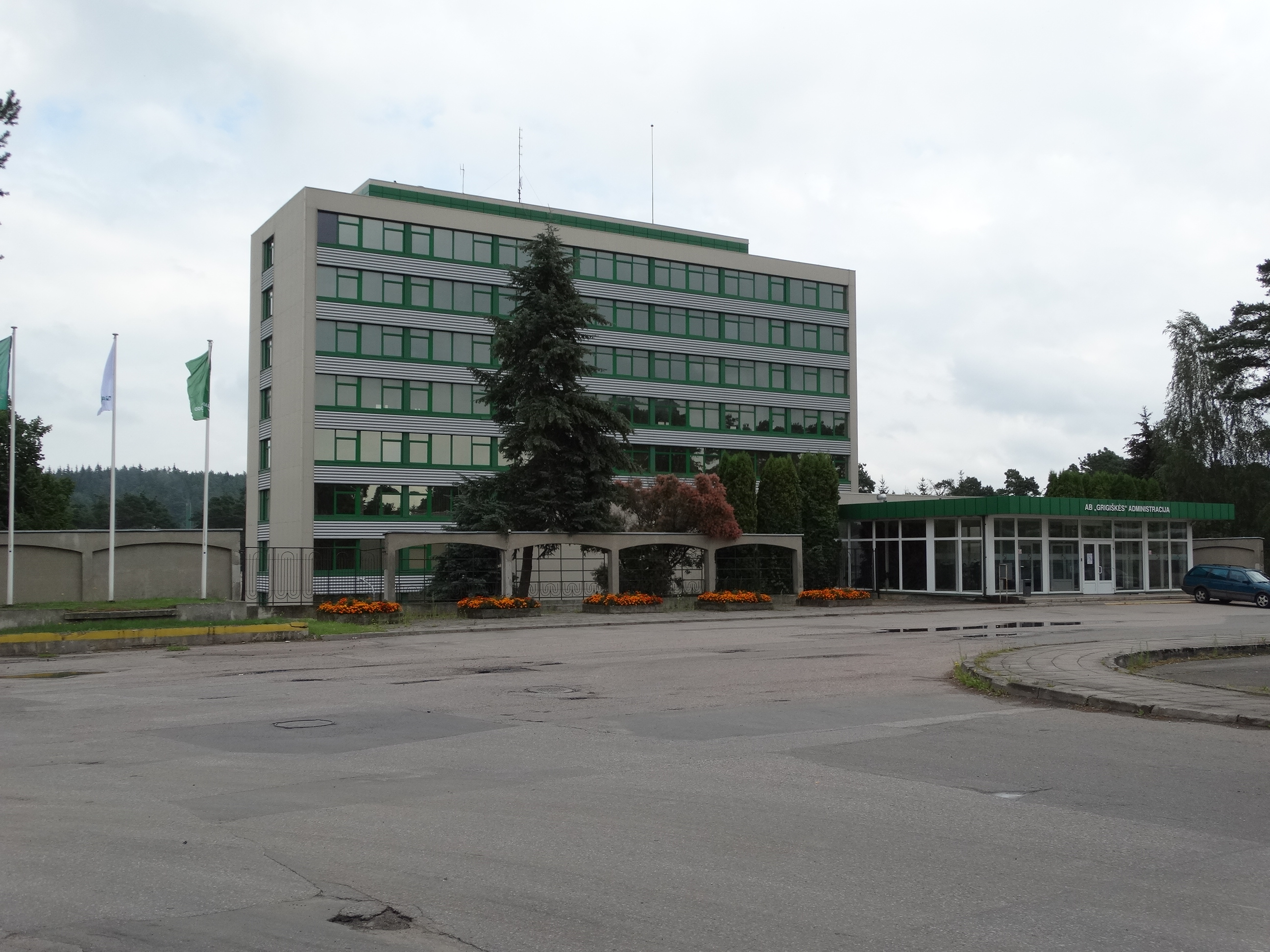 Pulp and paper factory, Grigiškės, Lithuania